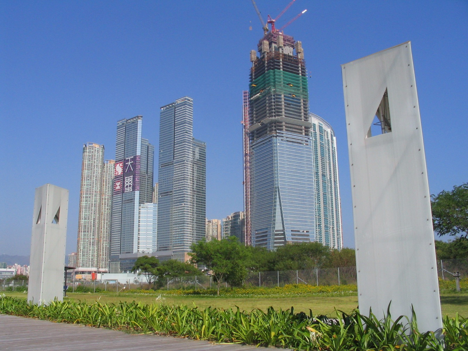 西九龍海濱長廊 West Kowloon Waterfront Promenade